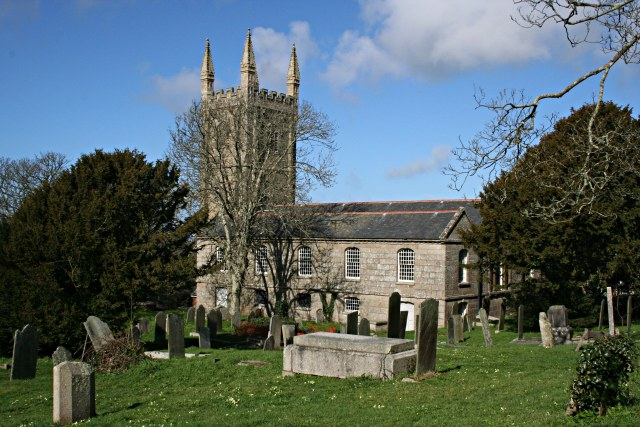 St Uny's Church This church was built in 1768 on the site of a previous one and is the original Redruth parish church although now it is the church of the parish of St Uny following the division of Redruth parish in 1884 in response to the growth of Redruth town in the 19th century.